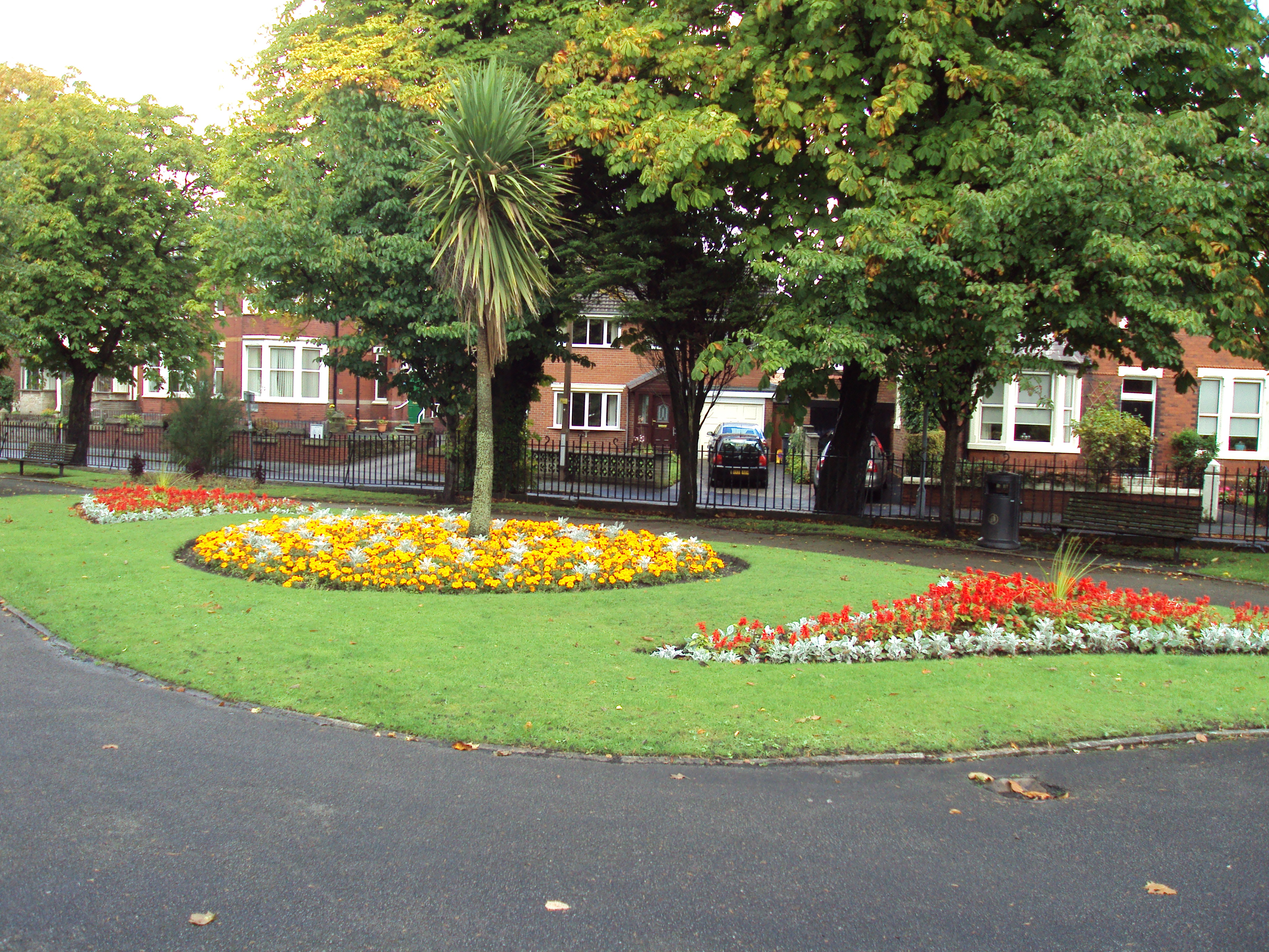 Flowerbeds, Victoria Park, Ormskirk, Lancashire, England.